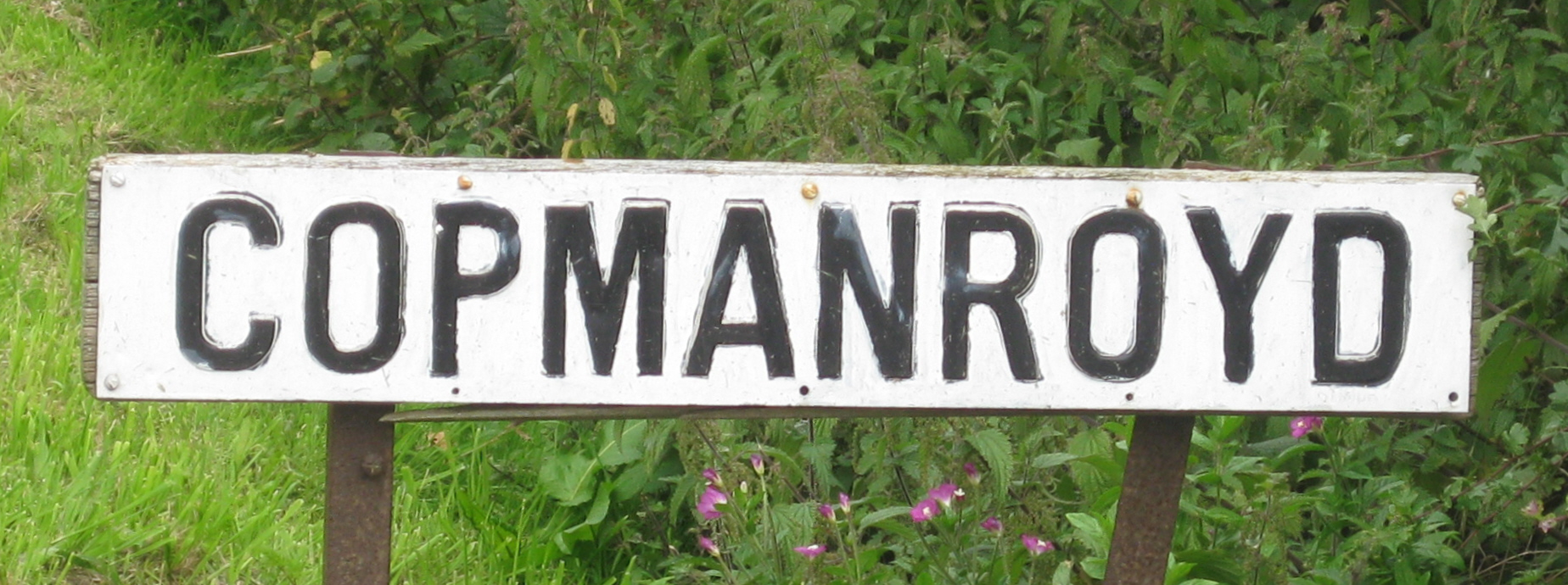 Cropped version of Copmanroyd 21 August 2017.jpg. Sign "Copmanroyd" which designates both the street and the hamlet which consists of buildings on it. It is to the East of Newall Carr Road, just South of Clifton Village Hall.